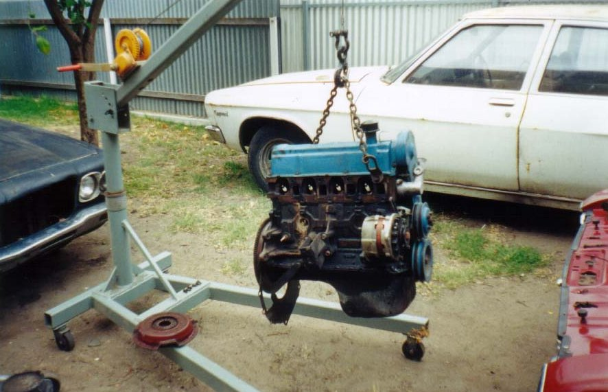 This was when I swapped motors at some point as the original was getting tired.